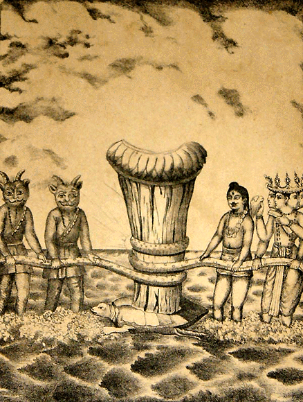 The following illustrations are from the book entitled "The Ten Principal Avataras of the Hindus: A Short History of Each Incarnation and Directions for the Representations of the Murtis as Tableaux Vivants" by Sourindo Mohun Tagore, published in 1880 in Calcutta.